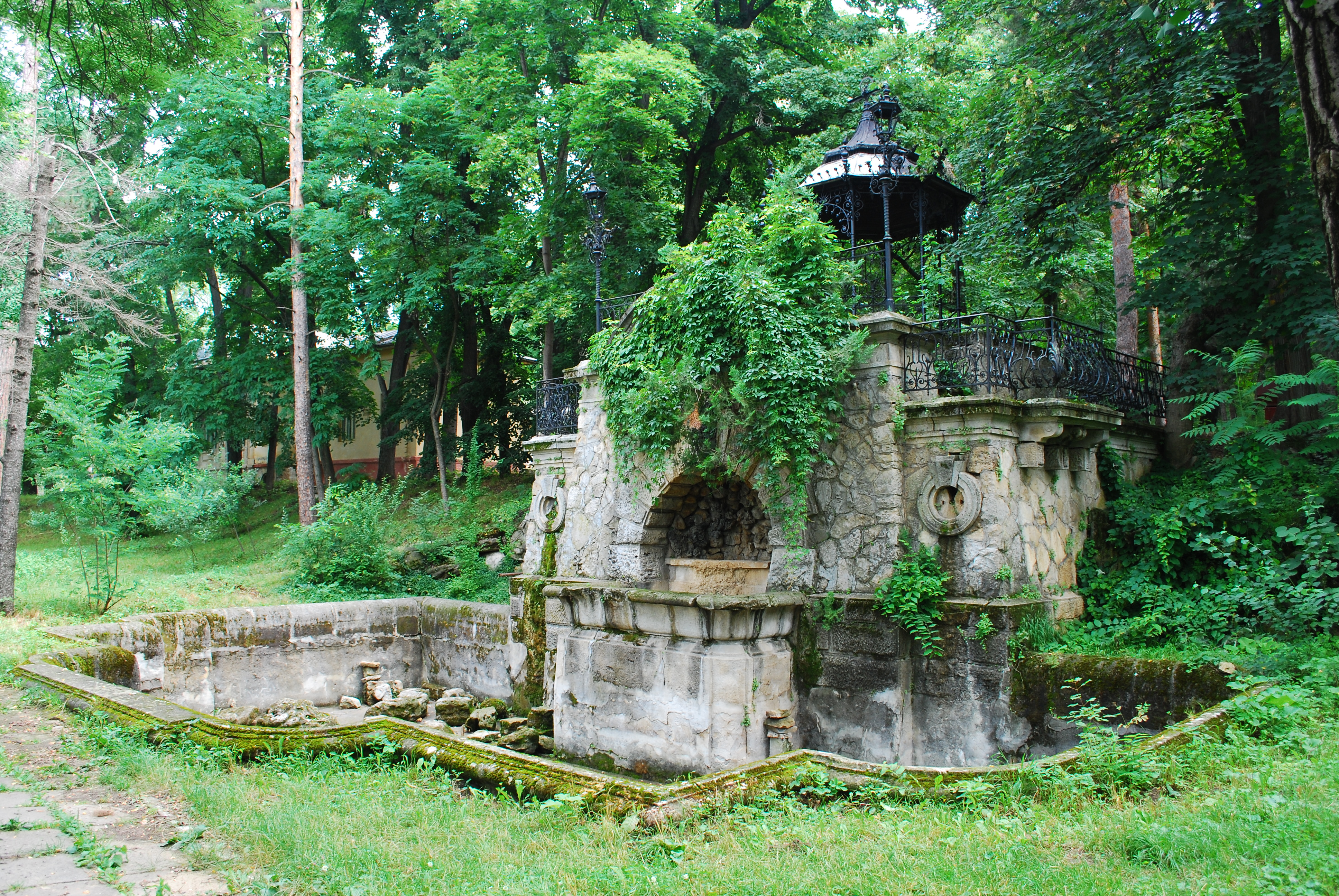 A fountain in the Monteoru villa yard in Sărata Monteoru, Buzău County, Romania